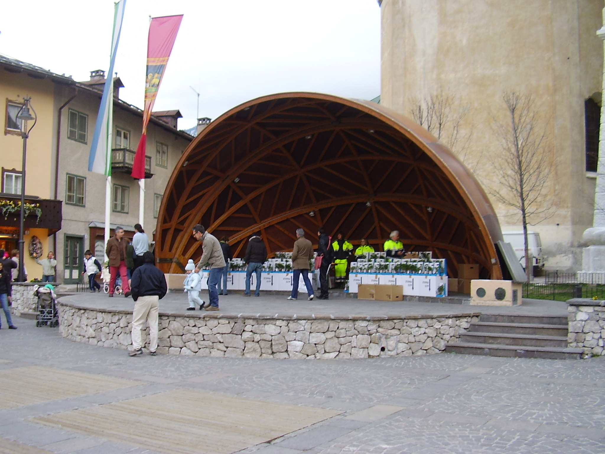 Cortina d'Ampezzo - The "Conchiglia".